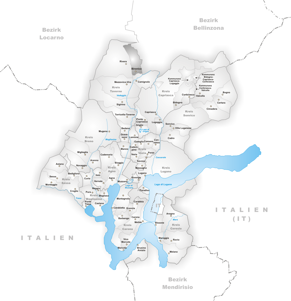 Municipality Bironico